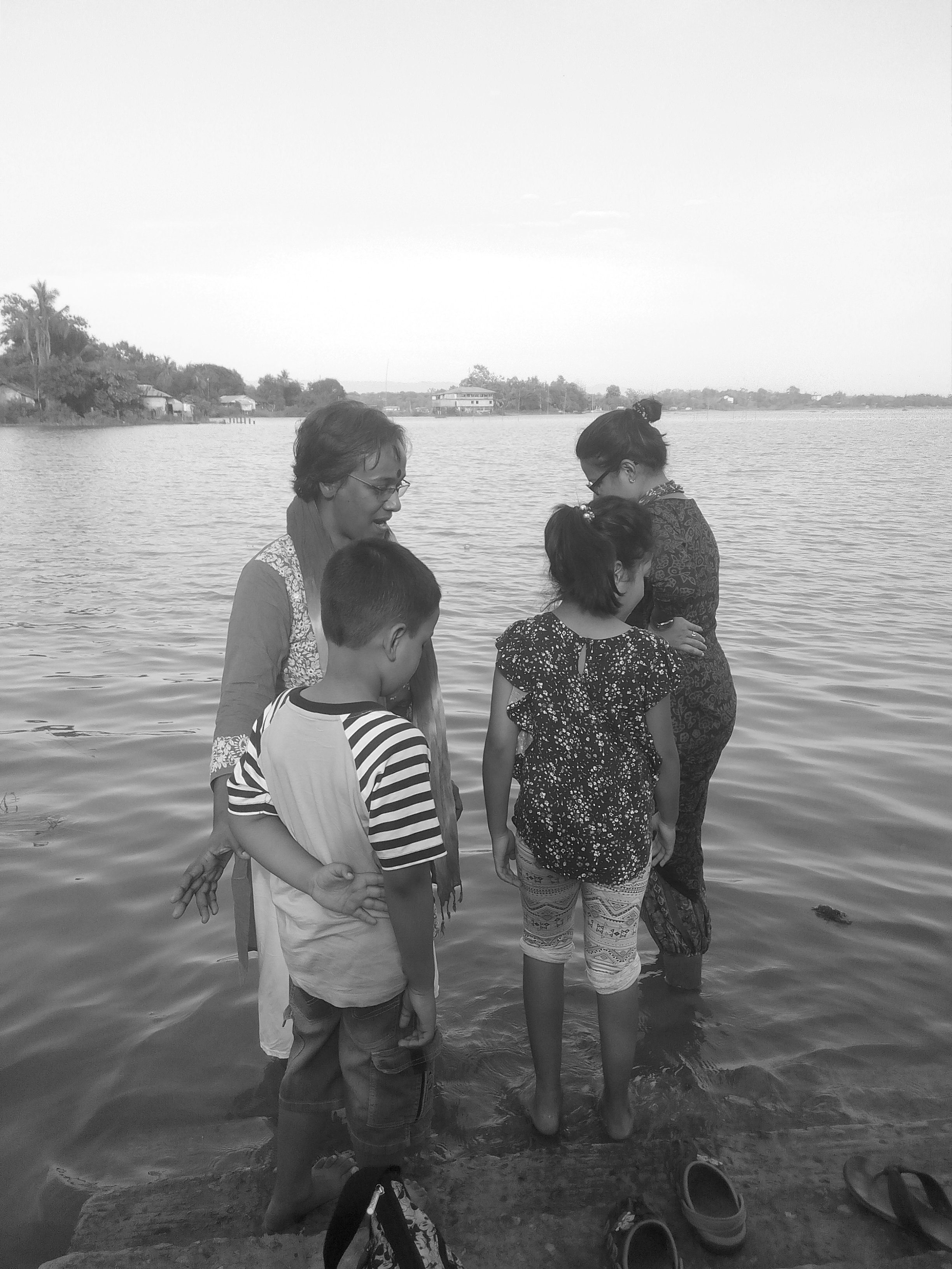 A family visit at Kaptai Lake